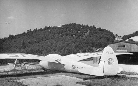 Polish glider Mewa